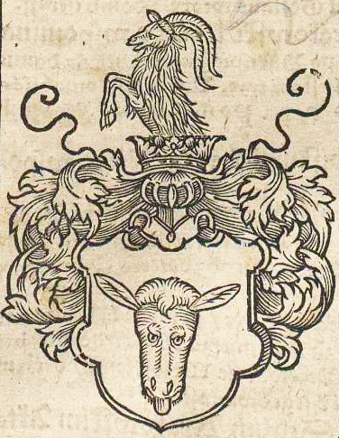 Półkozic coat of arms by B. Paprocki, published in "Herby rycerztwa.."